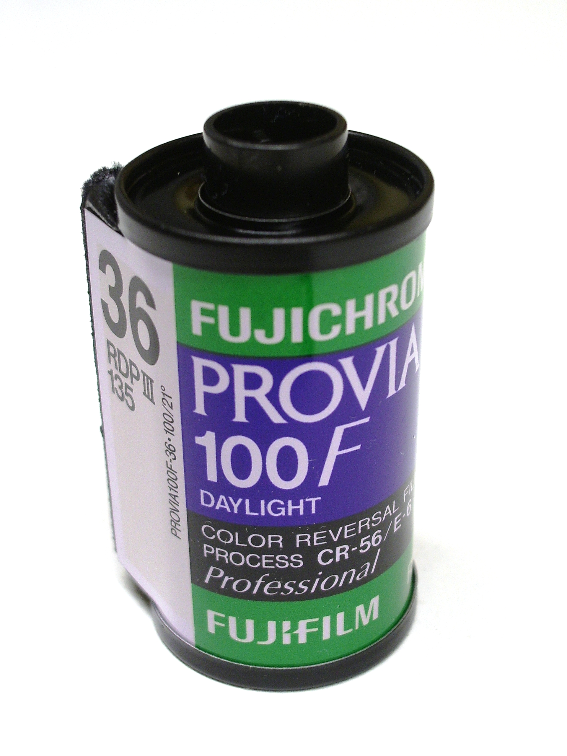 Fujifilm Provia 100F [RDP III] 35mm roll.